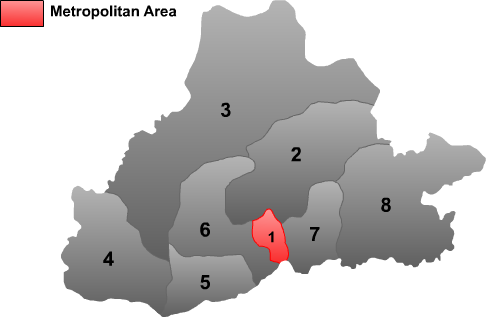 Map of Lhasa in Tibet autonomous region